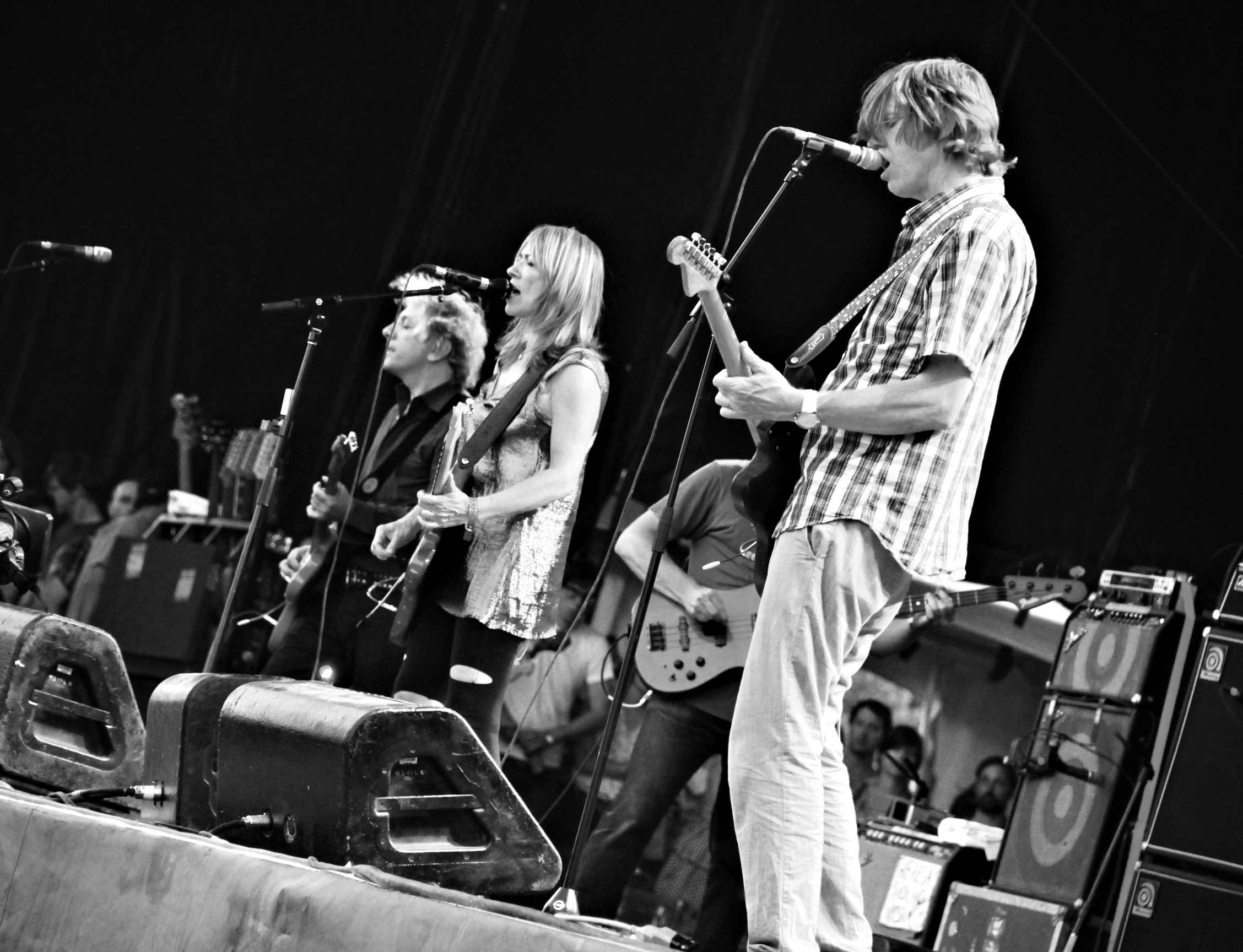 From left to right: Lee Ranaldo, Kim Gordon and Thurston Moore of the American band Sonic Youth performs at Osheaga Festival in Montreal, Québec, Canada, on 1 August 2010.